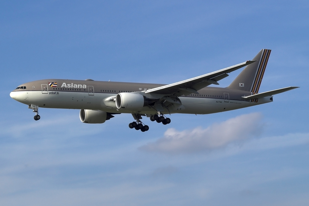 =Asiana Airlines Boeing 777-28E(ER) HL7742